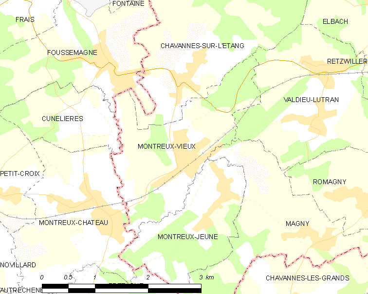 Map of French municipality